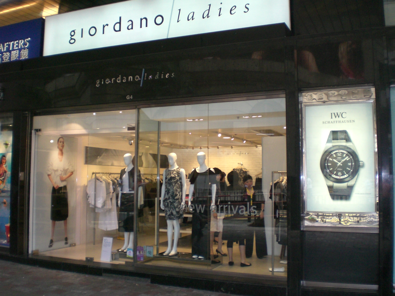 佐丹奴 Author= Saiyans16